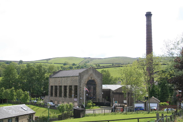 Bancroft engine house and chimney This complex is all that remains of the last weaving shed built in Barnoldswick. The shed was closed in 1978 and the preserved engine house opened in 1982. The 600 horsepower cross compound engine is run at full speed and you get a real feel of what an operating mill engine was like. This is possibly the best view but the light was not with me.